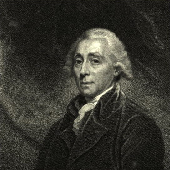 Richard Paul Jodrell (1745–1831) — classical scholar and playwright.